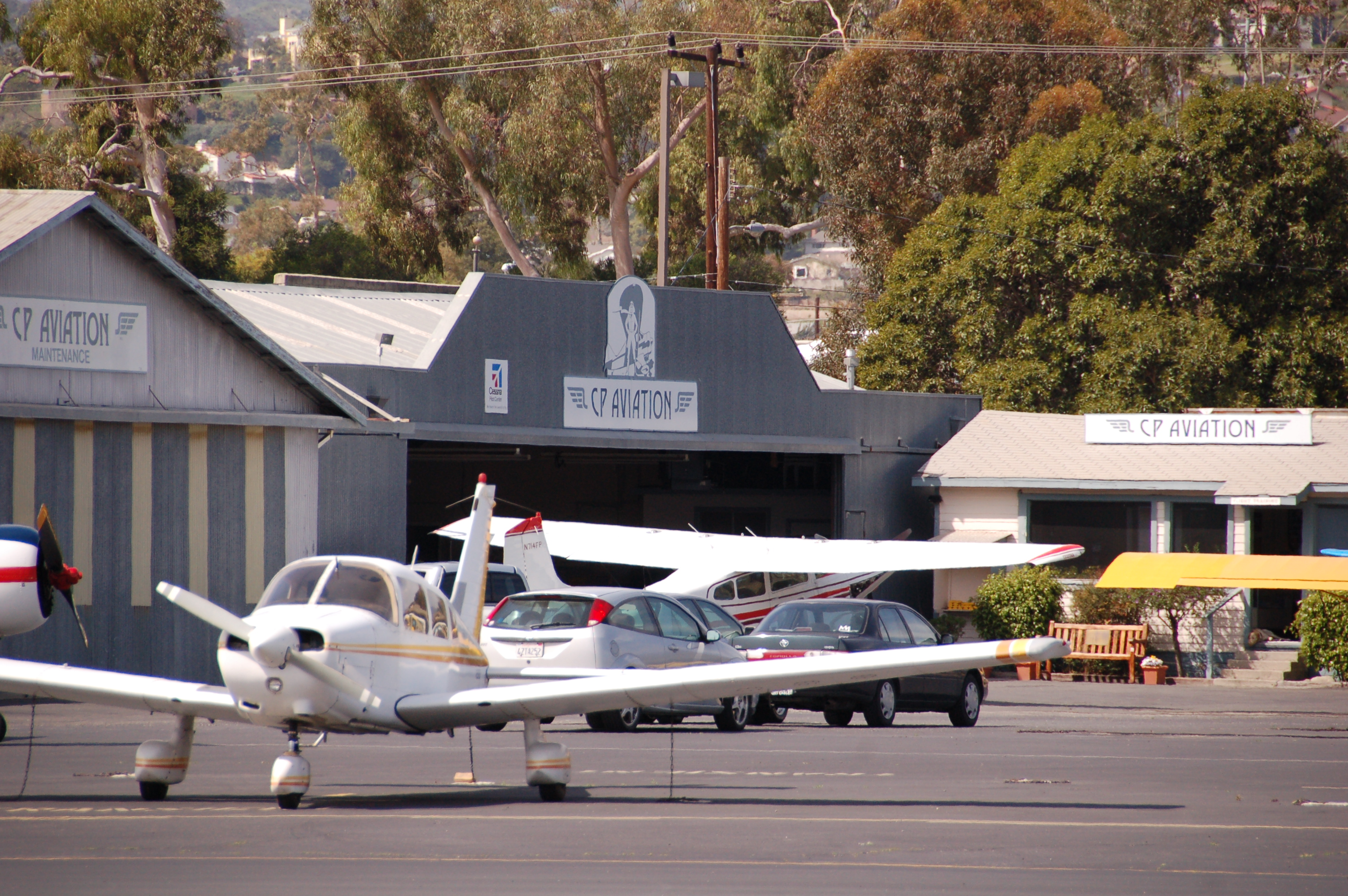 CP Aviation